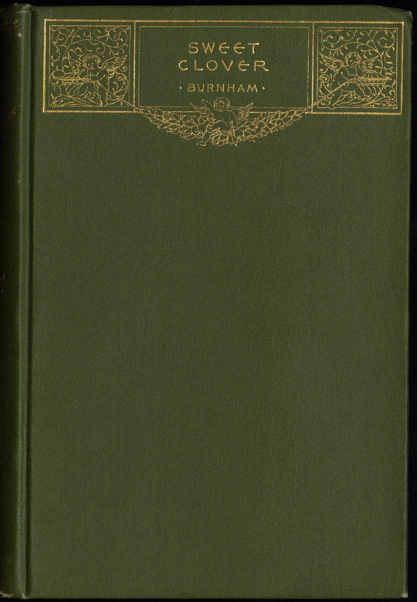 File name: 06_04_000224Title: BURNHAM(1894) Sweet cloverDate issued: 1894Genre: Book coversNotes: Burnham, Clara Louise, 1854-1927 (Author)Collection: Sarah Wyman Whitman BindingsLocation: Boston Public Library, Special CollectionsRights: No known copyright restrictions.